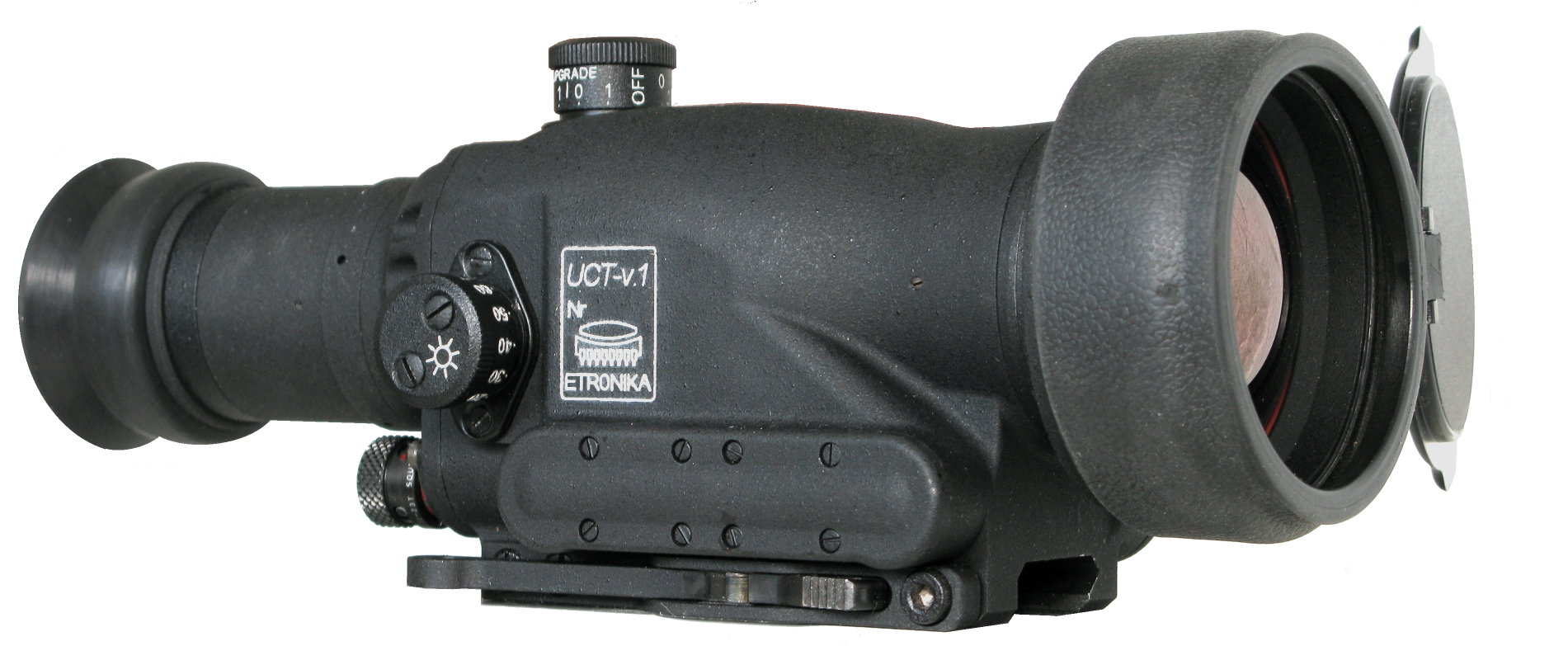 UCT-1 universal thermal weapon sight.